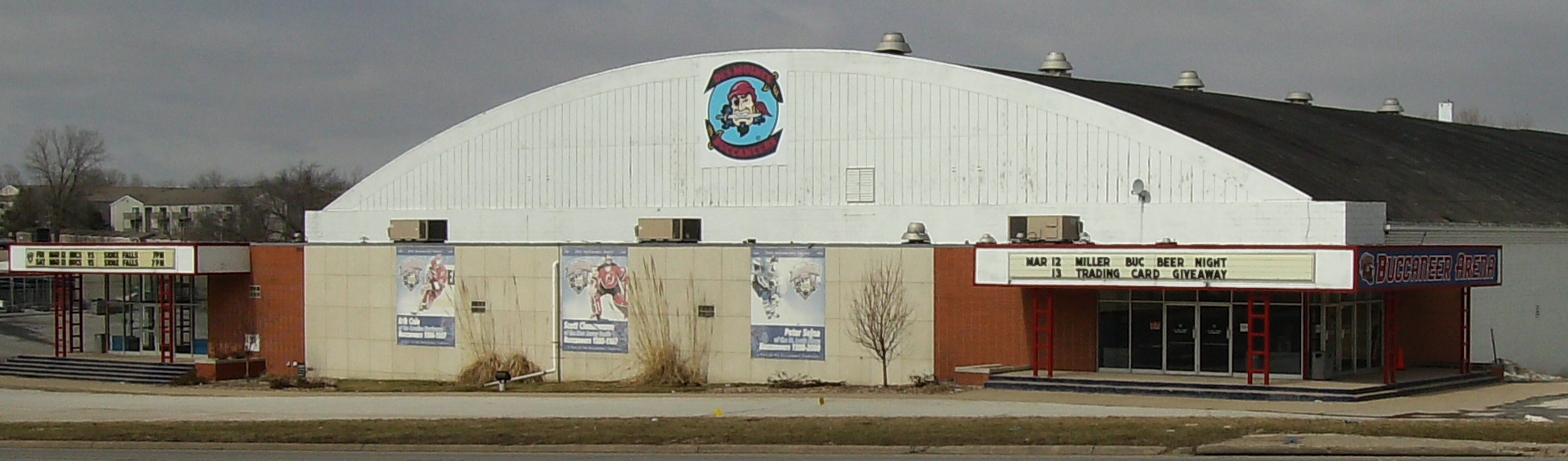 Buccaneer Arena (formerly 95KGGO Arena) in Urbandale, Iowa, photographed by User:Iowahwyman on March 14, 2010 Category:Images of Iowa